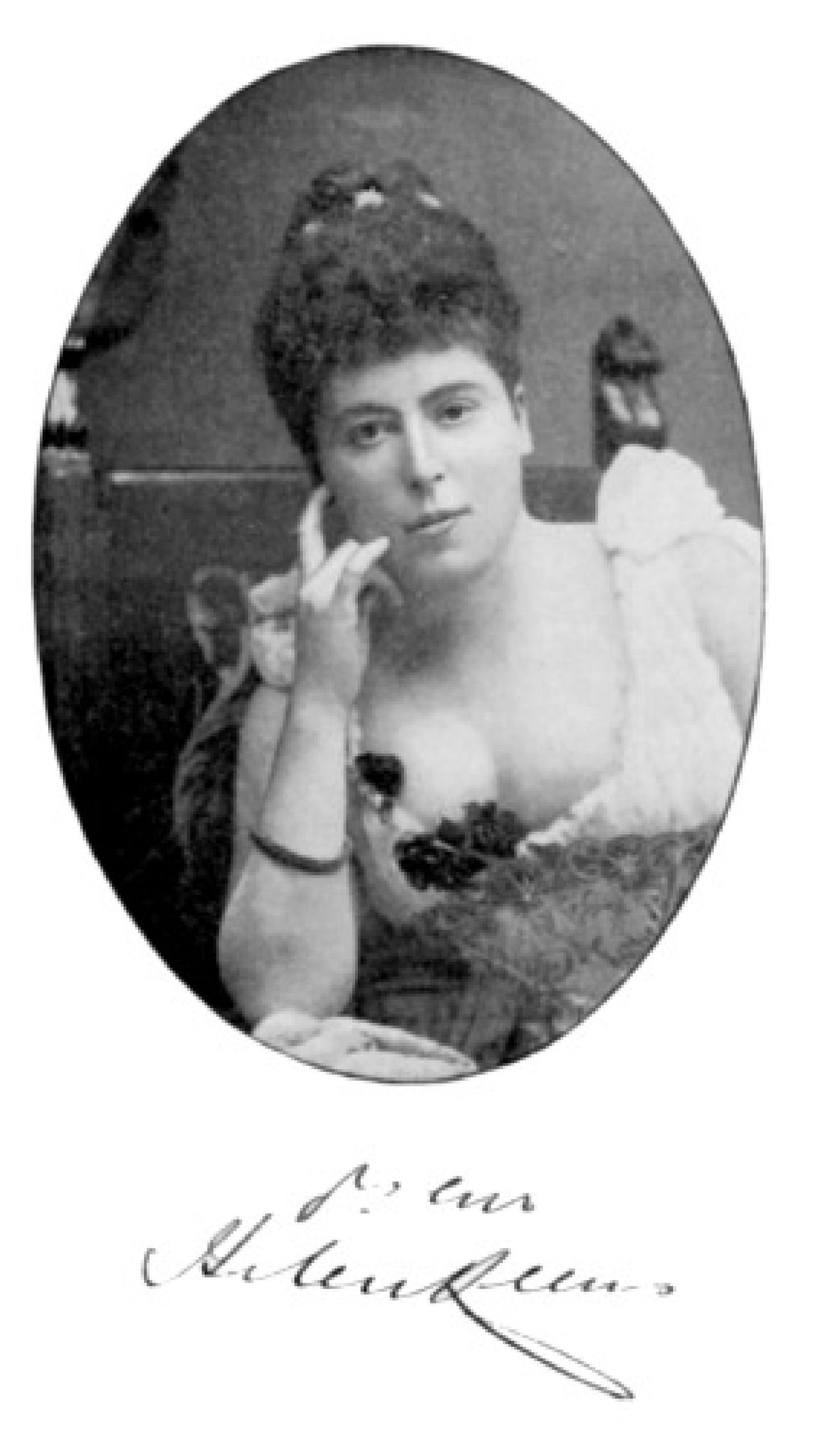 Ellen Buckingham Mathews (1853 - 1920) was a popular female English novelist during the late 19th and early 20th century. She was also known as Mrs Reeves after her marriage to Dr. Henry Reeves but was best known under her pen name, Helen Mathers.